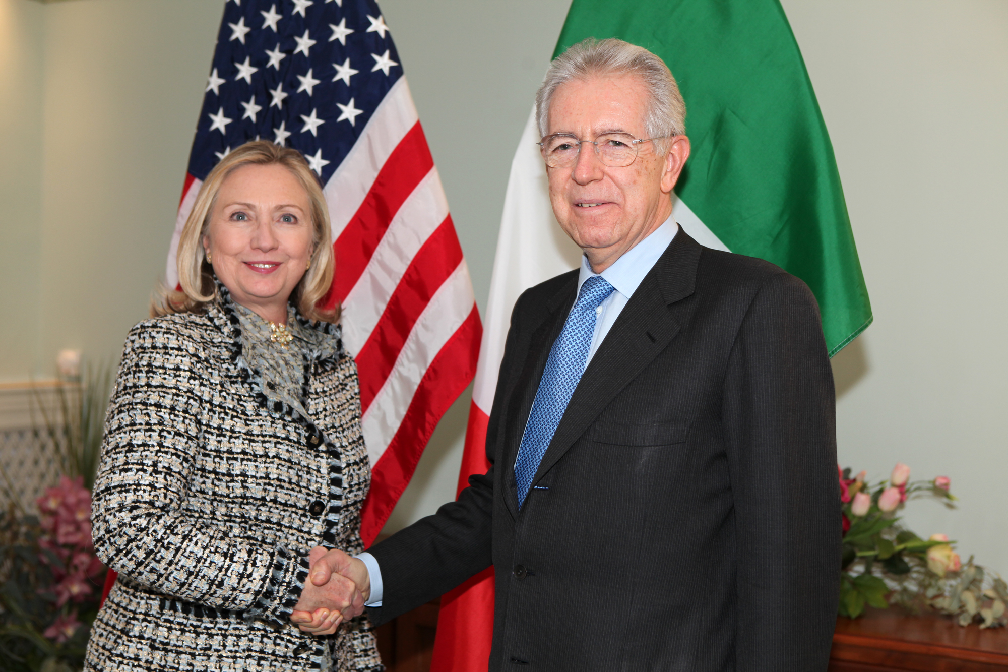 U.S. Secretary of State Hillary Rodham Clinton meets with Italian Prime Minister Mario Monti in Munich, Germany, on February 4, 2012. [State Department photo/ Public Domain]